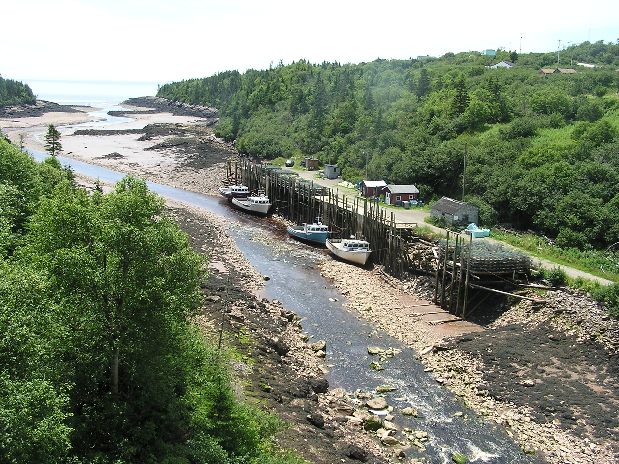 I took this photo of the Mispec Quai in July, 2006. I am putting it here in the commons for all to use.